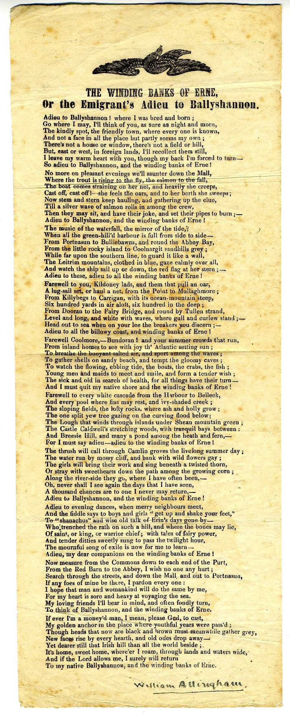 Example of the Anglo-Irish poet William Allingham's youthful broadsheets showing an early version of "The Winding Banks of Erne, Or the Emigrant's Adieu to Ballyshannon" (afterwards published as "Adieu to Belashanny"). This broadsheet probably pre-dates the first formal publication, which was in the Dublin University Magazine for February 1858, p. 173. Photo of the original in private collection of the uploader.